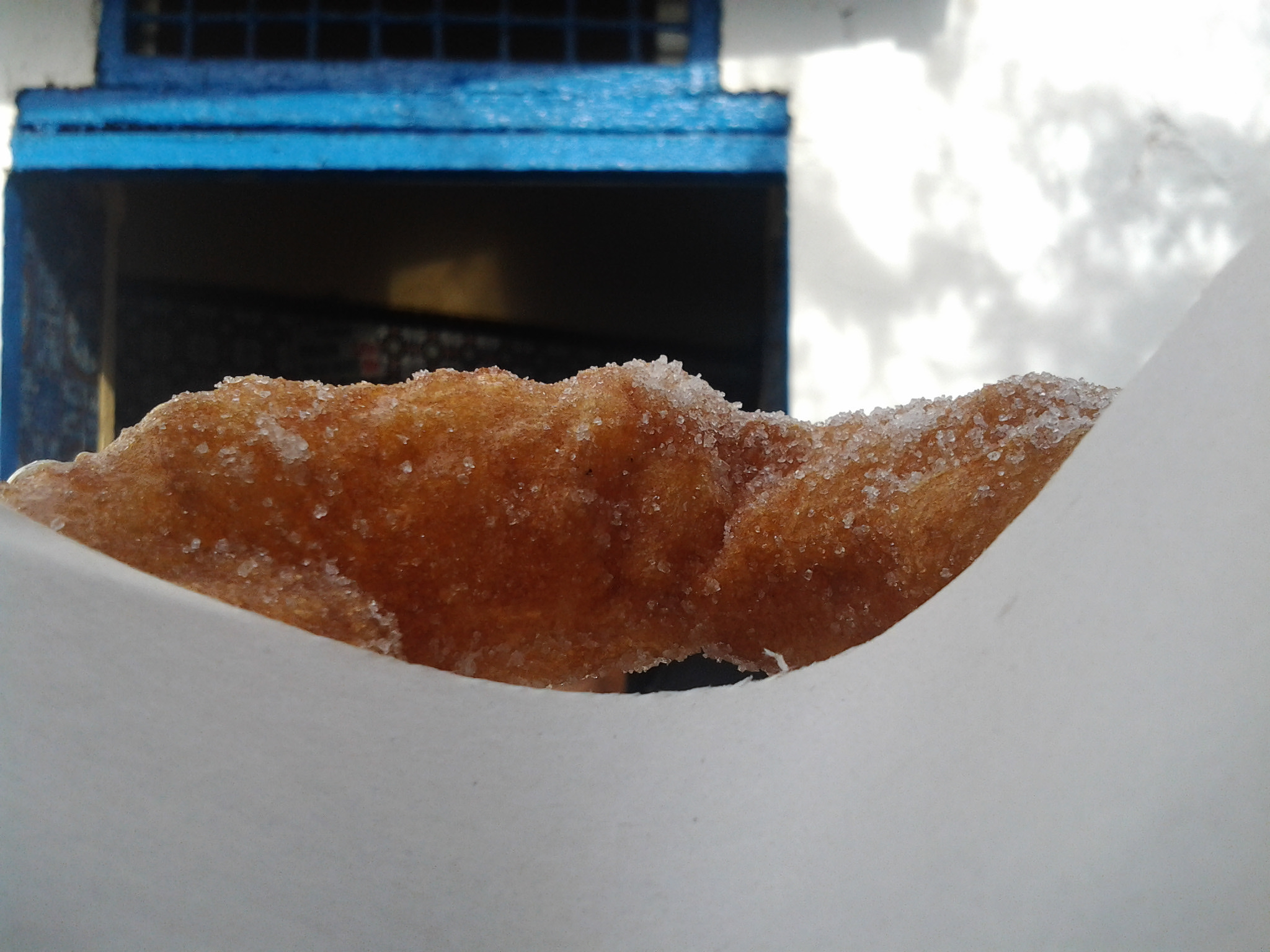 Sweet Tunisian Donut sprinkled with sugar (in Sidi Bousaid)